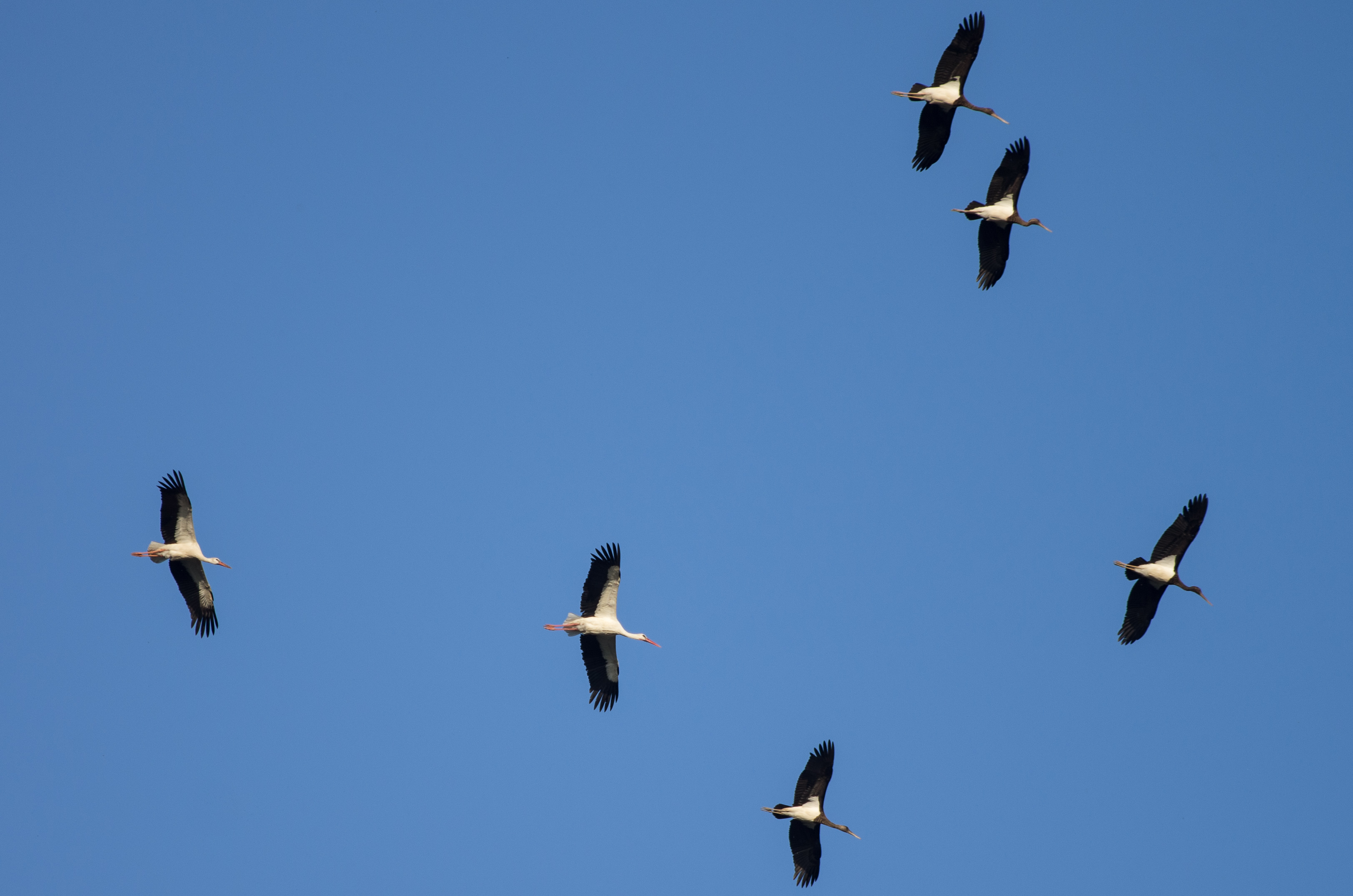 Common bird migration of black storks and white storks, nature reserve Poda, Bulgaria